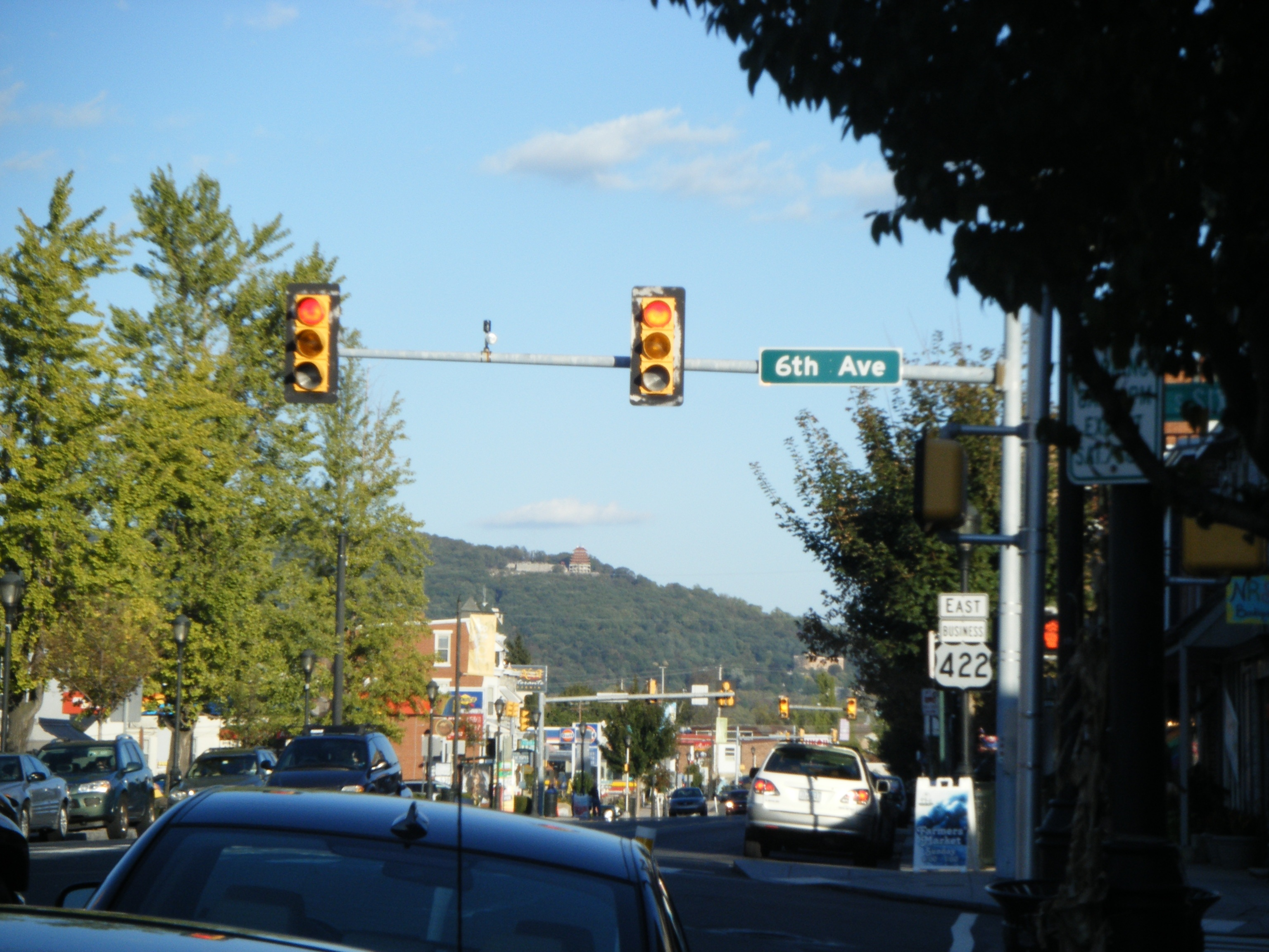 Eastbound U.S. Route 422 Business (Penn Avenue) at the intersection with 6th Avenue in West Reading, Pennsylvania. Mount Penn and the Pagoda can be seen in the background.